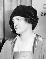 Photograph of Lucile Webster (Gleason) in the Broadway production of The Butter and Egg Man